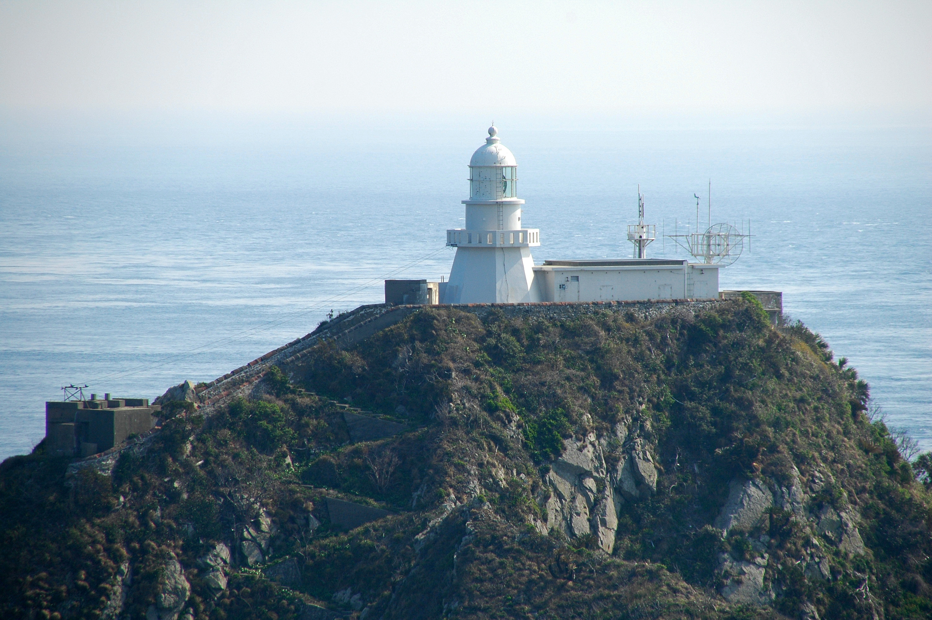 The south end "Sata Misaki lighthouse" in mainland in Japan. (Kagoshima Prefecture Minami osumi-cho. )